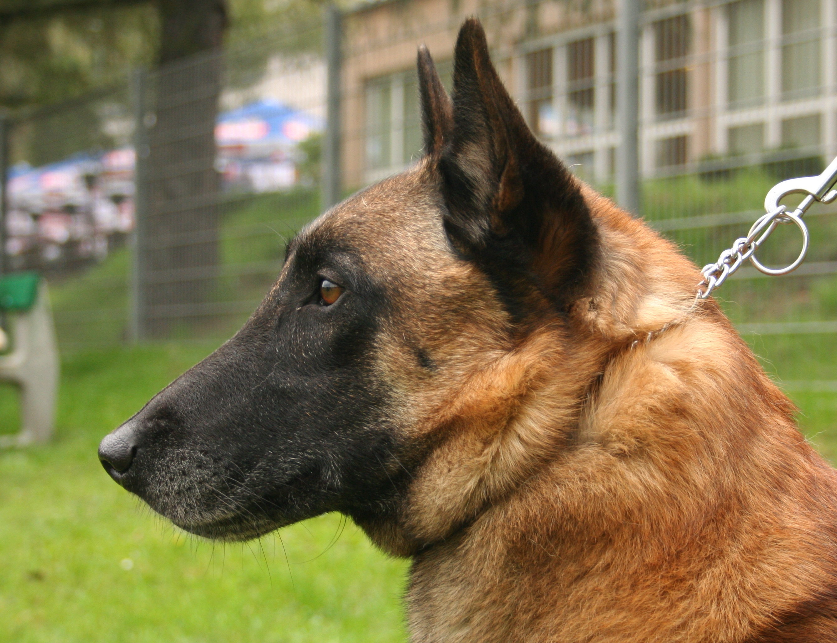 Belgian Shepherd Malinois during show of dogs in Rybnik - Kamień, Poland